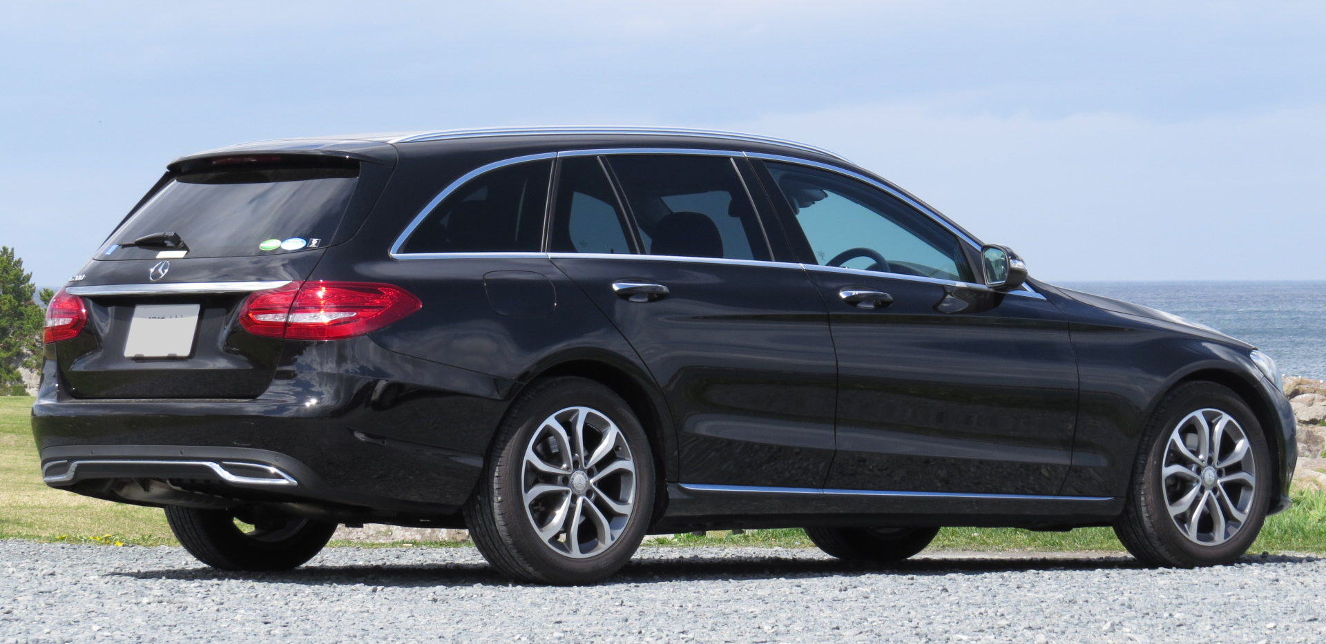 Mercedes-Benz C-Class Estate (S205)